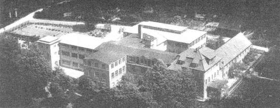 Schleusingen, probably textile factory von Nathusius/Lucius